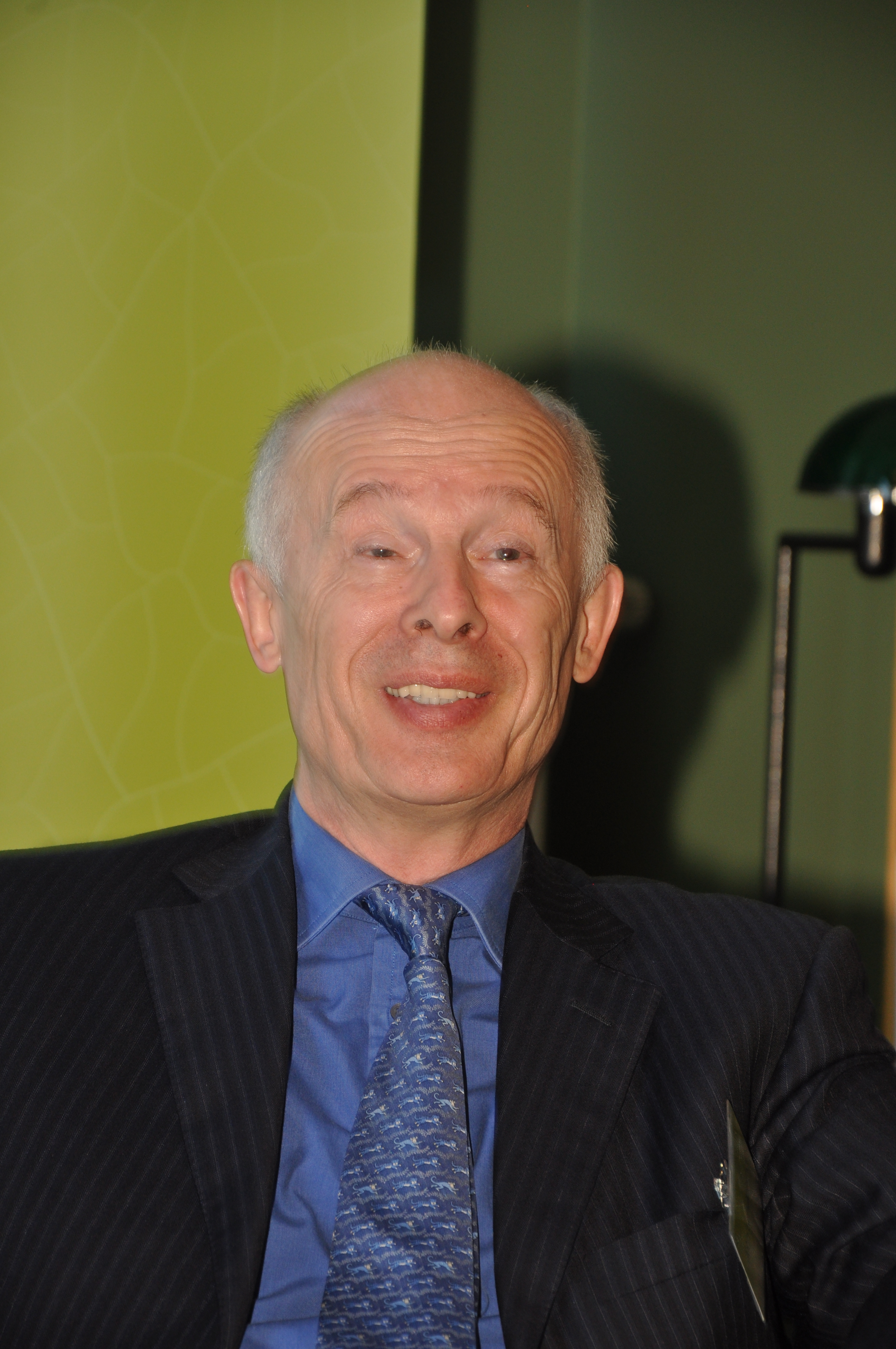 John Schellnhuber, at the Nobel Laurate Globalsymposium 2011, at Vetenskapsakademien in Stockholm, discussing climate change